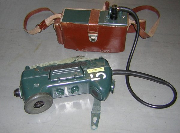 FuG-7: The first real handheld radio for the german public service after WW-II